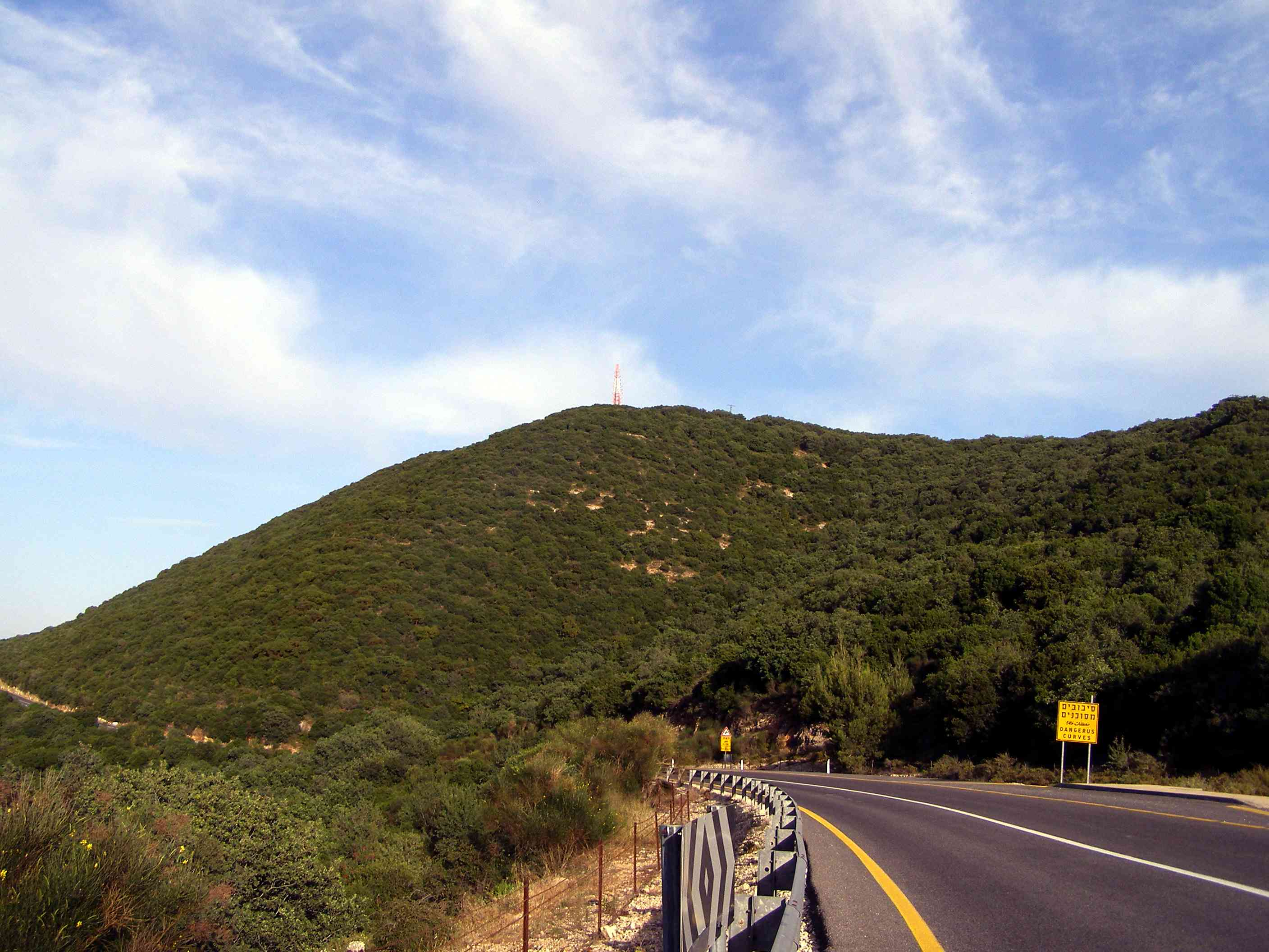 Mount Adir, Israel